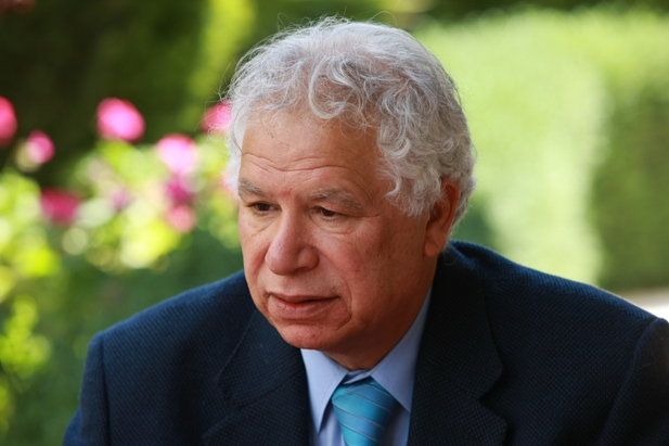 Personal photo of Poet and Author Mourid Barghouti, taken by Dia Saleh